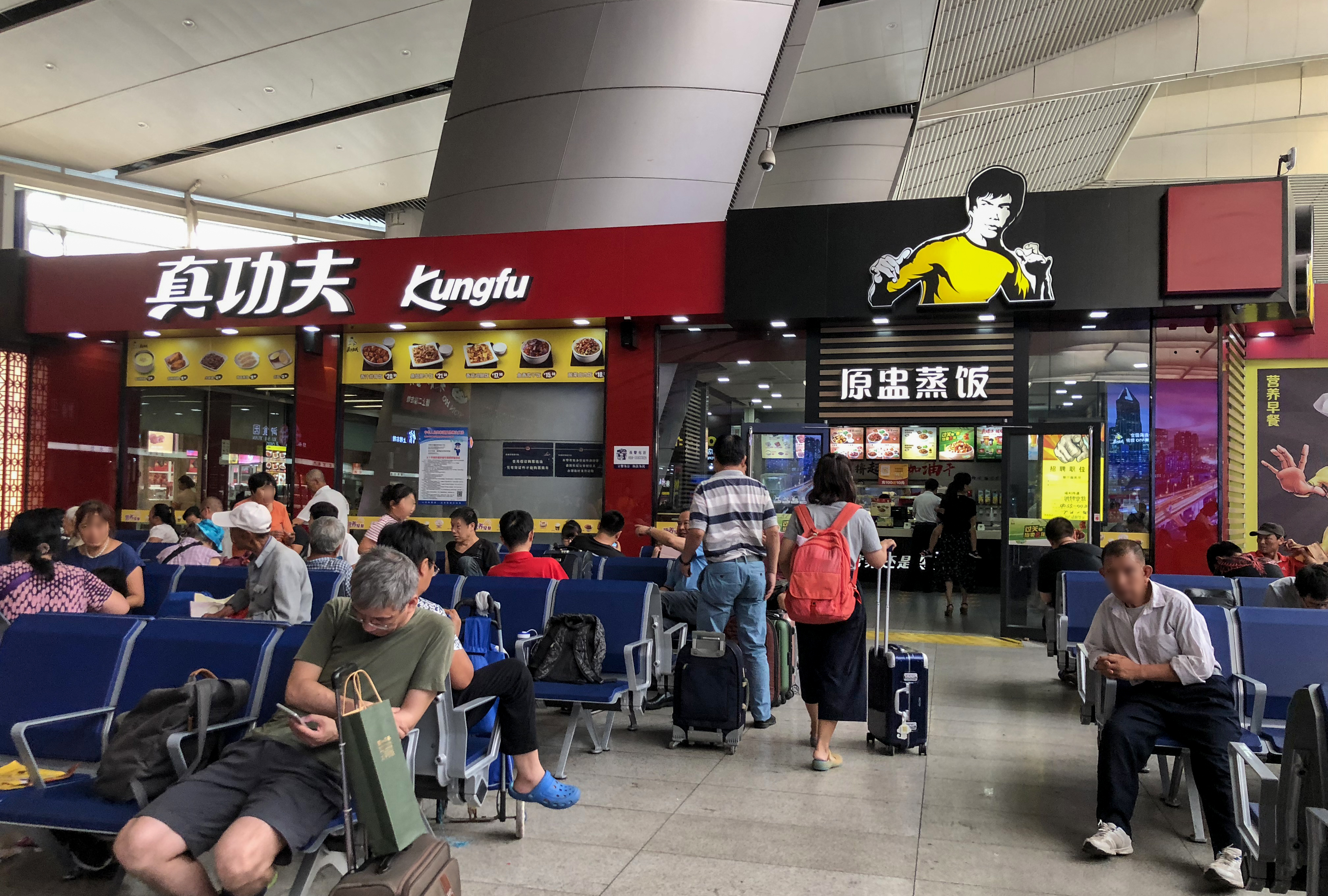 On the northwest.